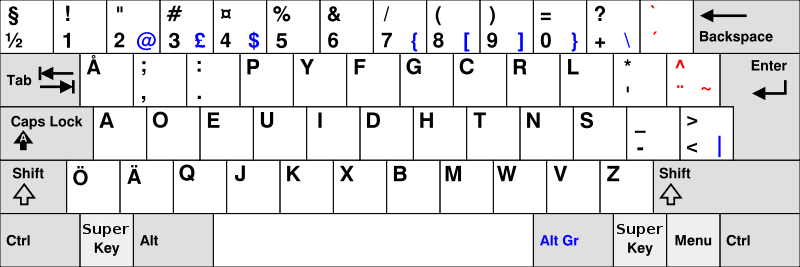 Swedish Dvorak version "svdvorak".